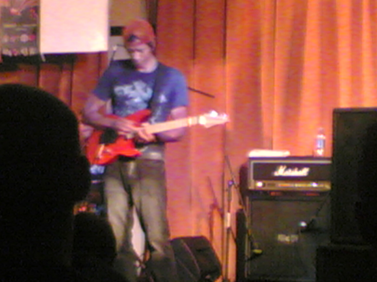 Guitarist Greg Howe in Venosa, Basilicata